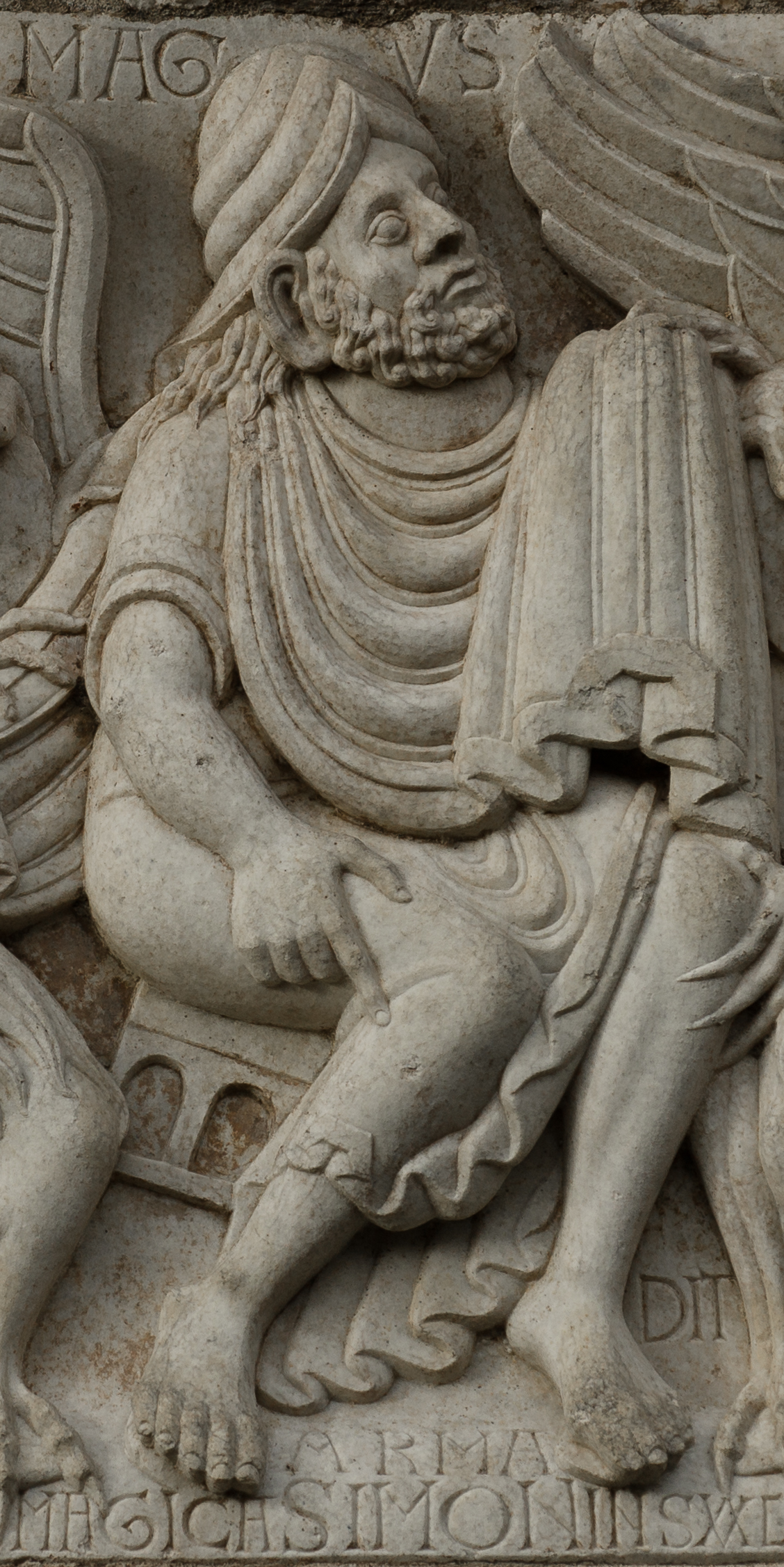 Relief on the Miègeville's gate of the basilica Saint-Sernin in Toulouse. The relief shows Simon magus, demons, and birth of the wine.